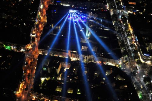 Festival of Lights downtown of the capital Berlin. On October 10th to 21th numerous tourist and cultural attractions of the city are lit in a colorful light show. To be seen in the picture is the Kudamm Karee. /